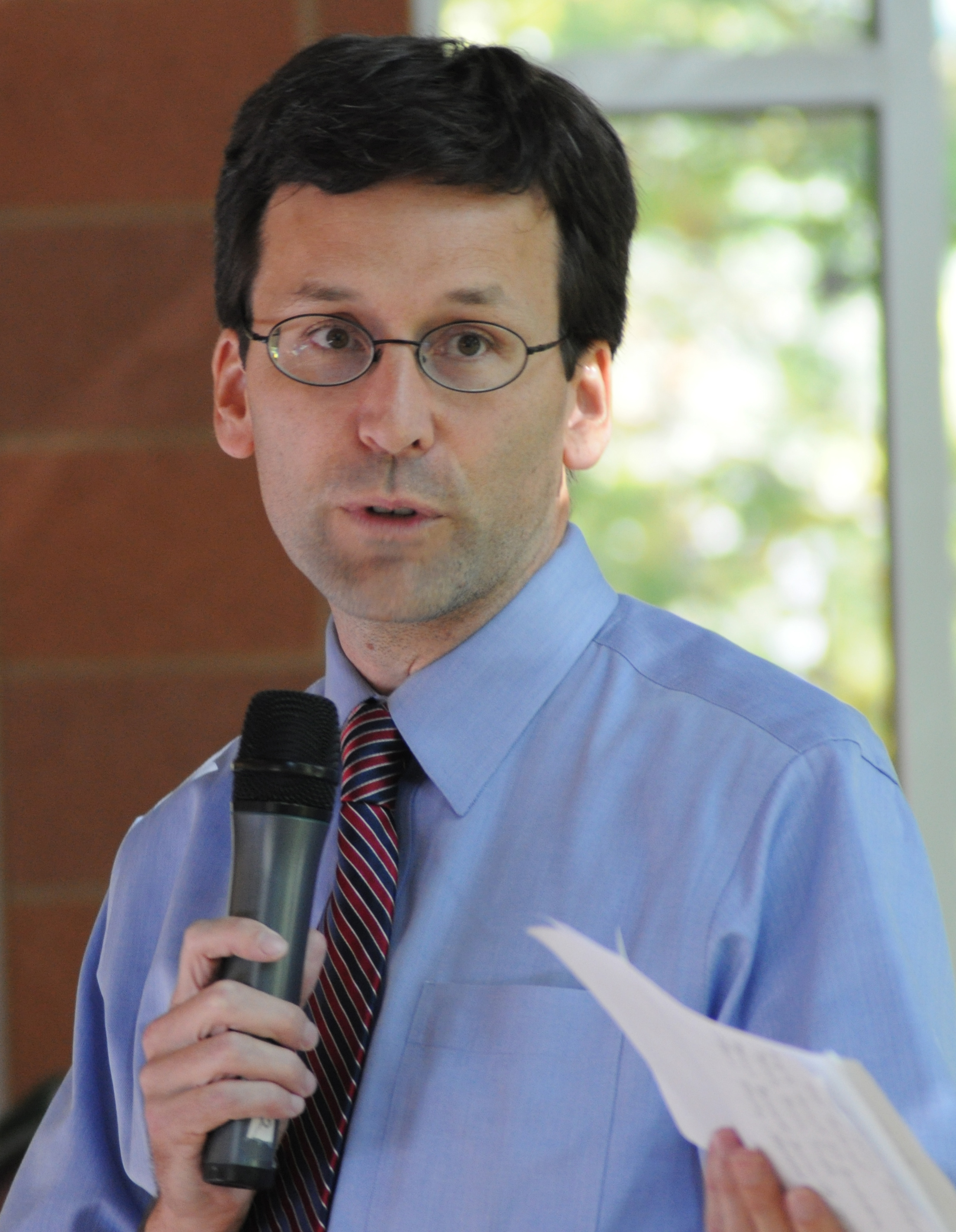 King County (Washington, US) Council Member Bob Ferguson